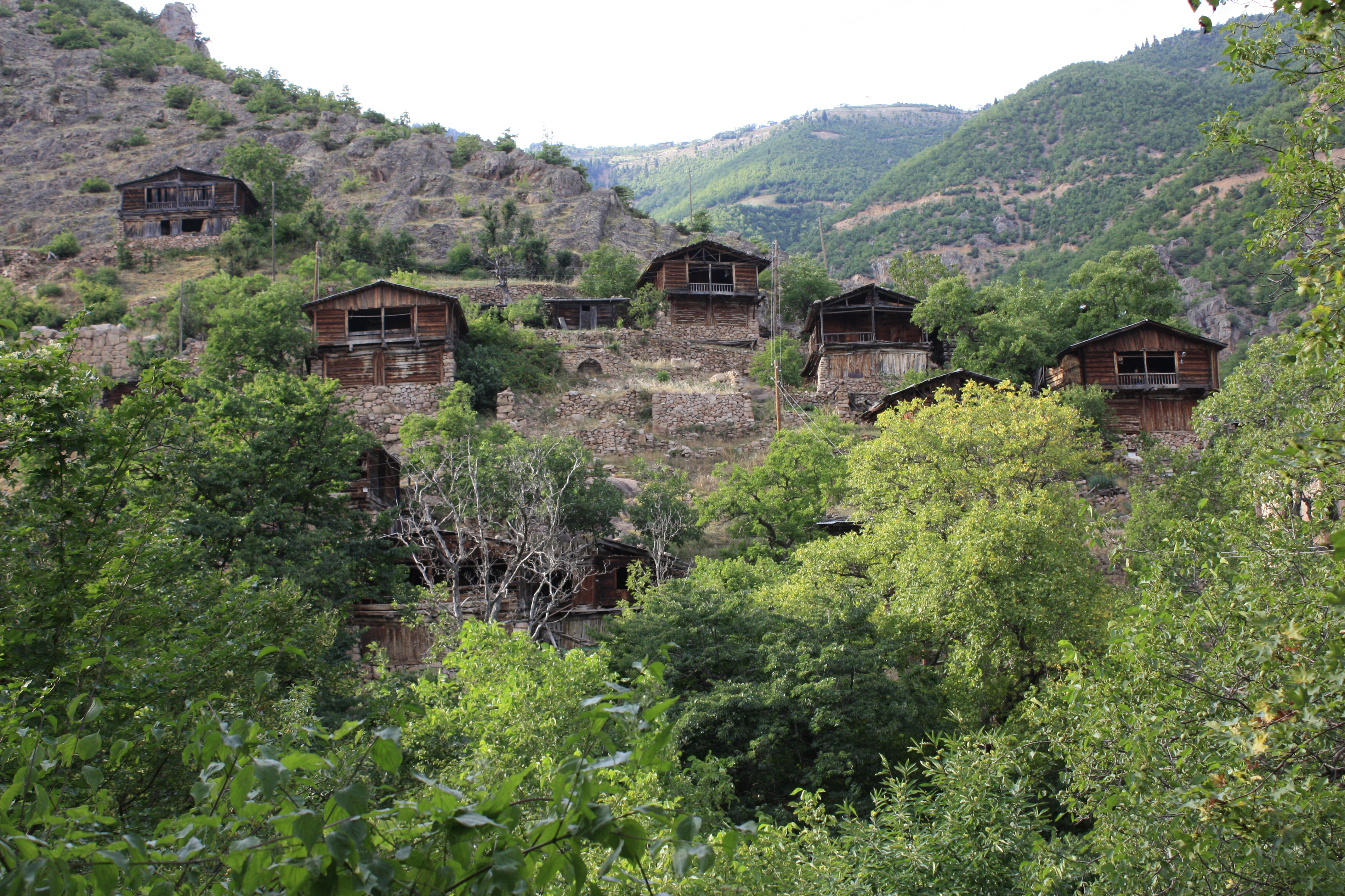 Georgian cathedral Khandzta in historical Georgian region Tao-Klarjeti